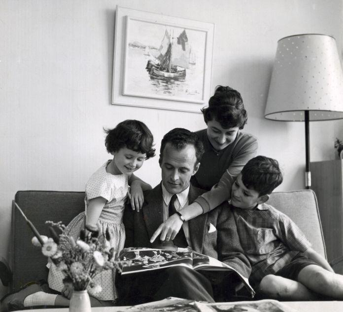 Nationaal Archief/Spaarnestad Photo/Henk Hilterman